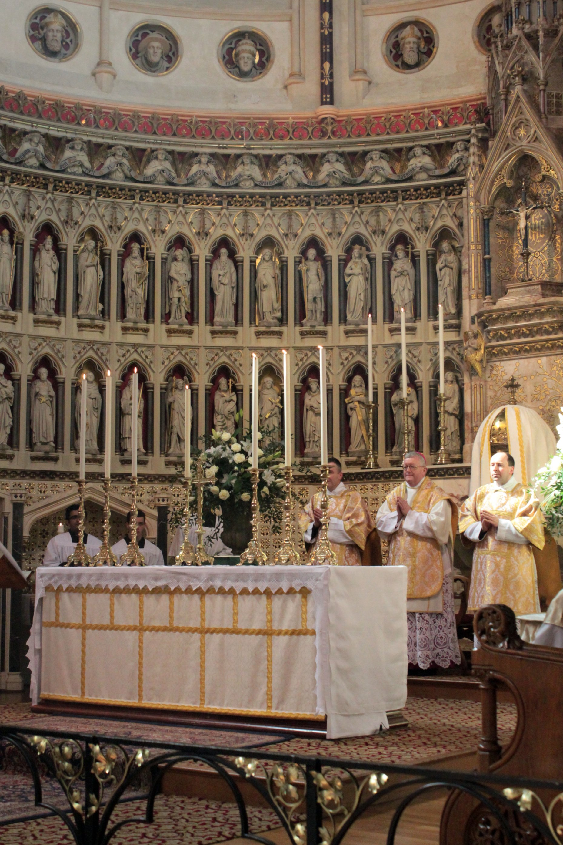 Archbishop Bernard Longley flanked by Oratorians, Fr Dominic Jacob & Fr Anton Webb in Oxford Oratory